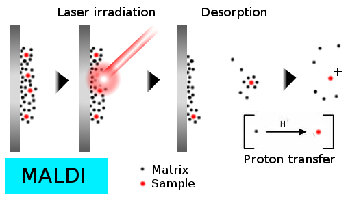 MALDI ionization technique principles.